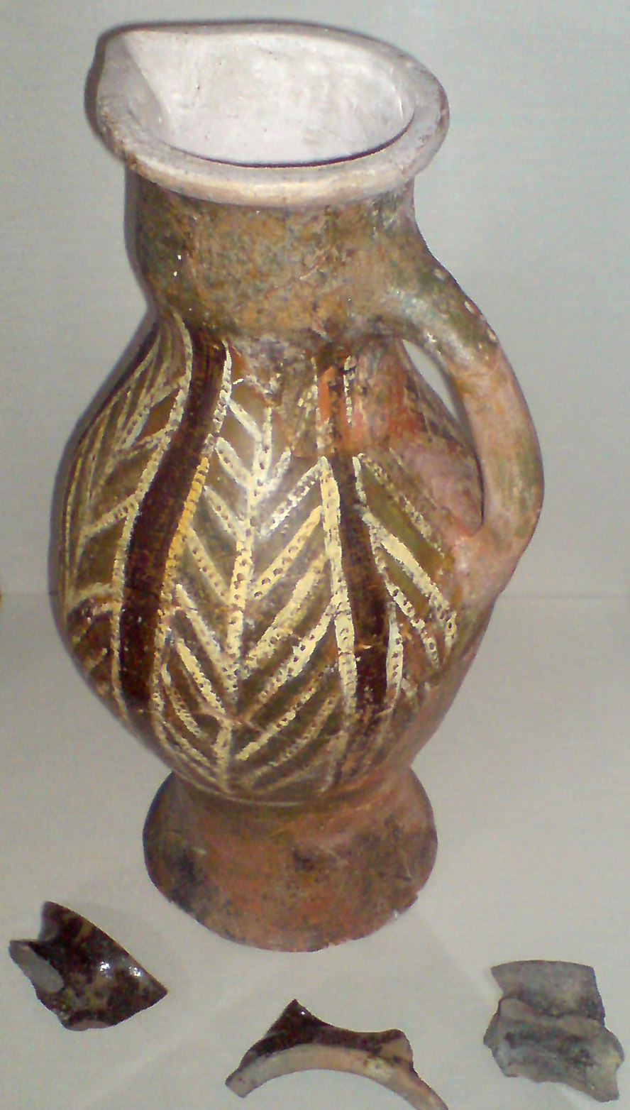 Thirteenth century Deritendware jug and sherds, excavated in Birmingham, England. photographed in Birmingham Museum and Art Gallery in February 2010.